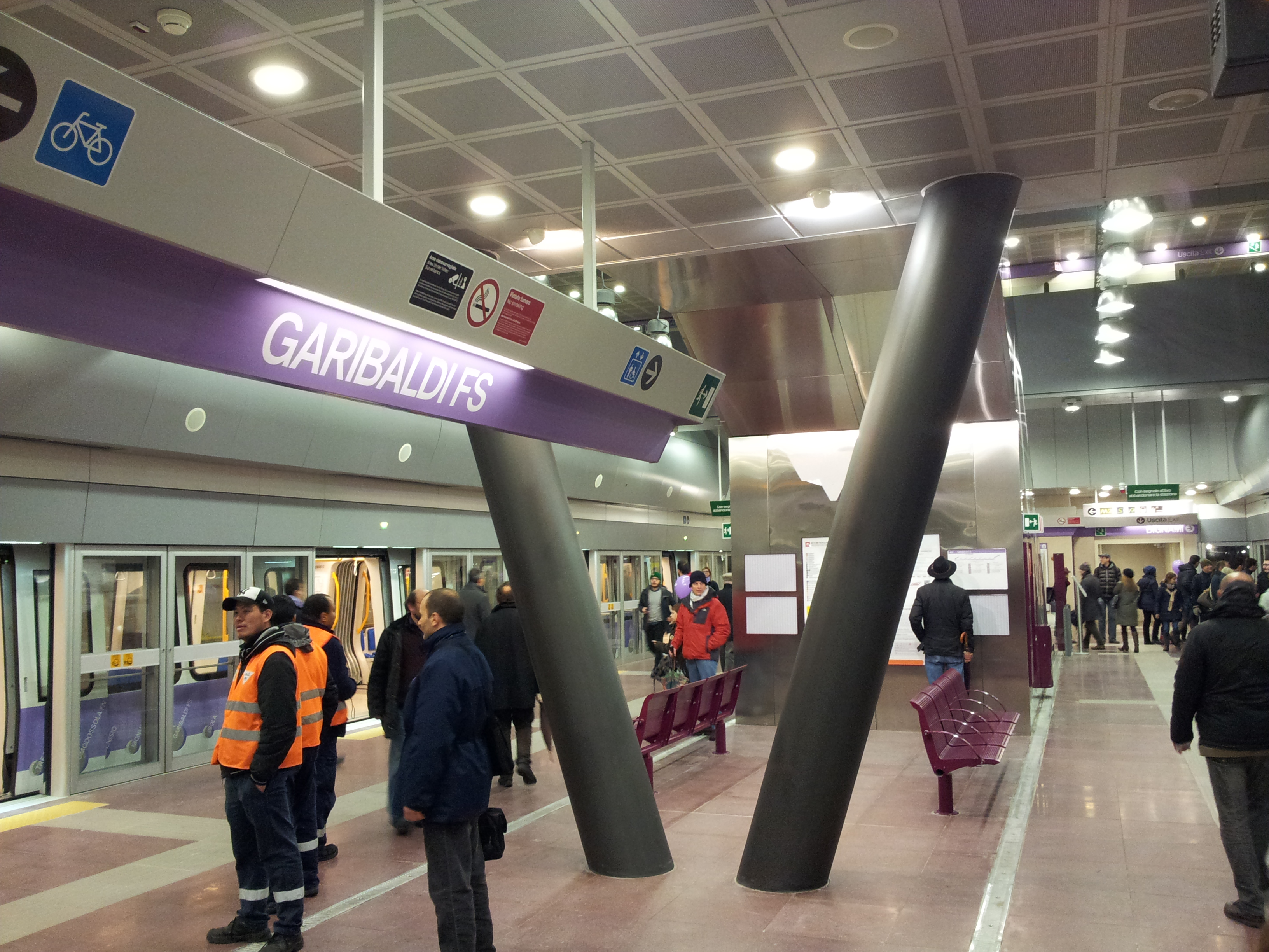 Garibaldi FS - Underground Line 5